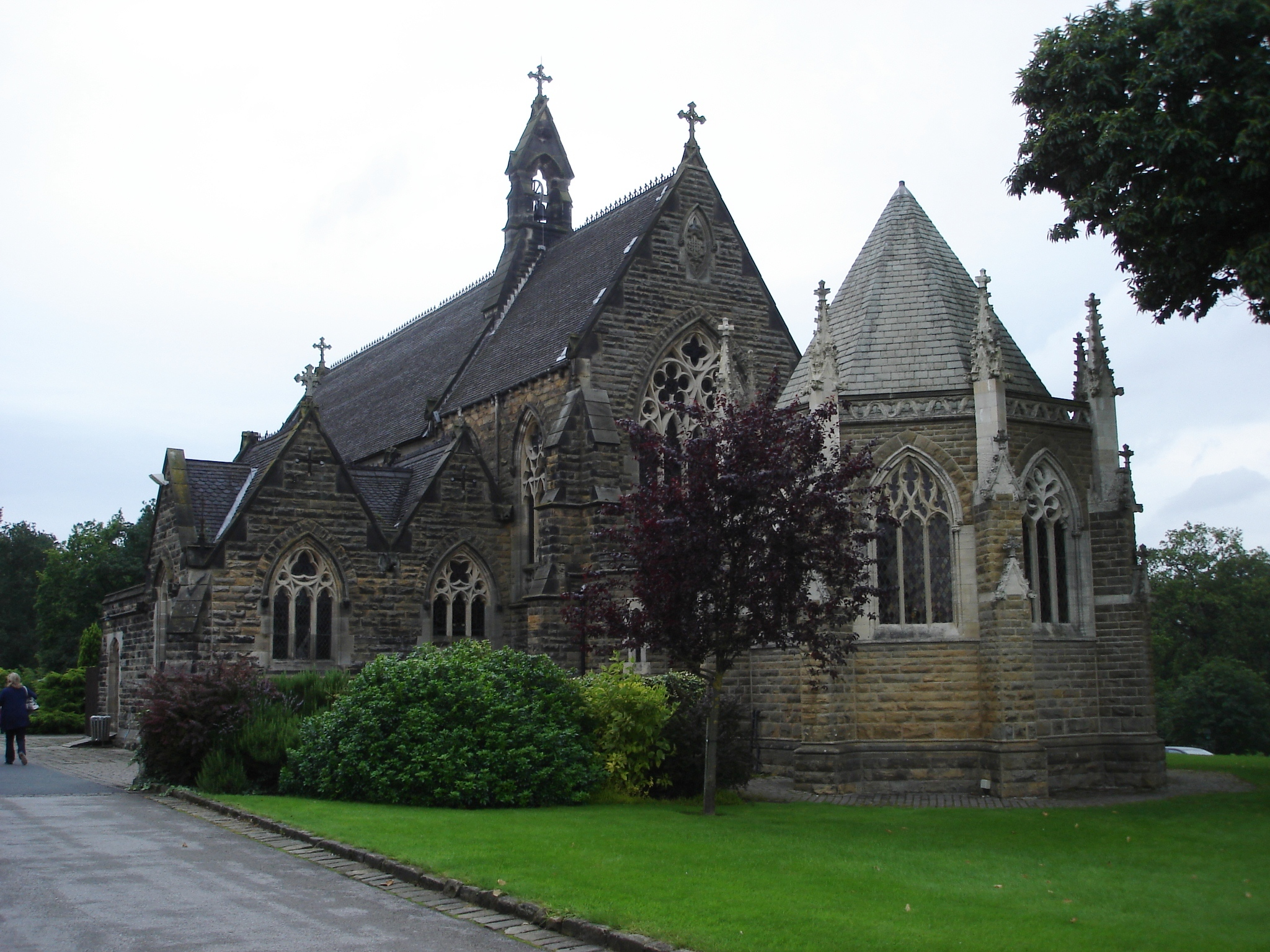 Roman Catholic chapel in Rudding Park, Harrogate, Yorkshire, seen from the southeast. The polygonal part on the right is the Radcliffe family mortuary chapel.